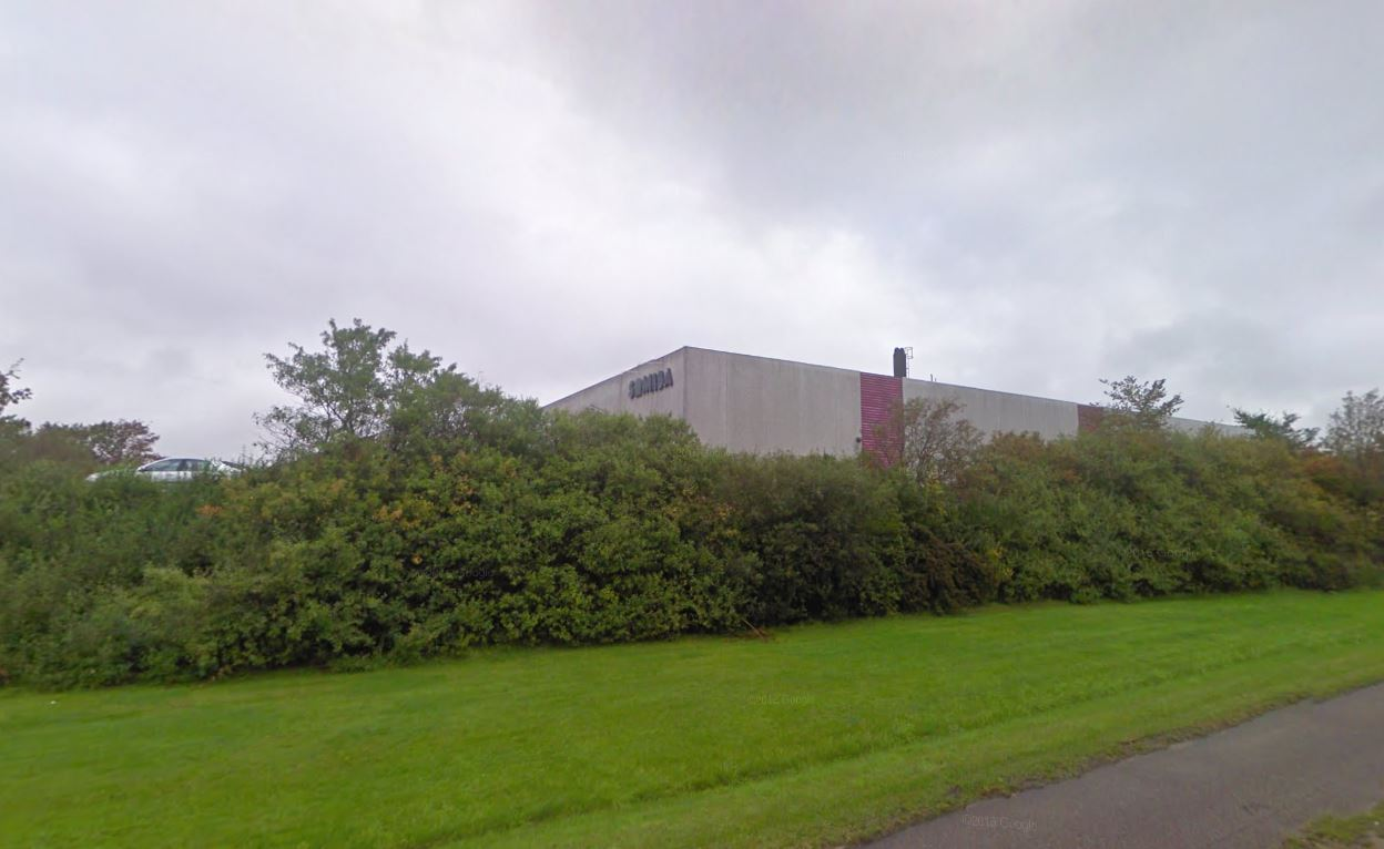 Elvirasminde main factory building, Skanderborg